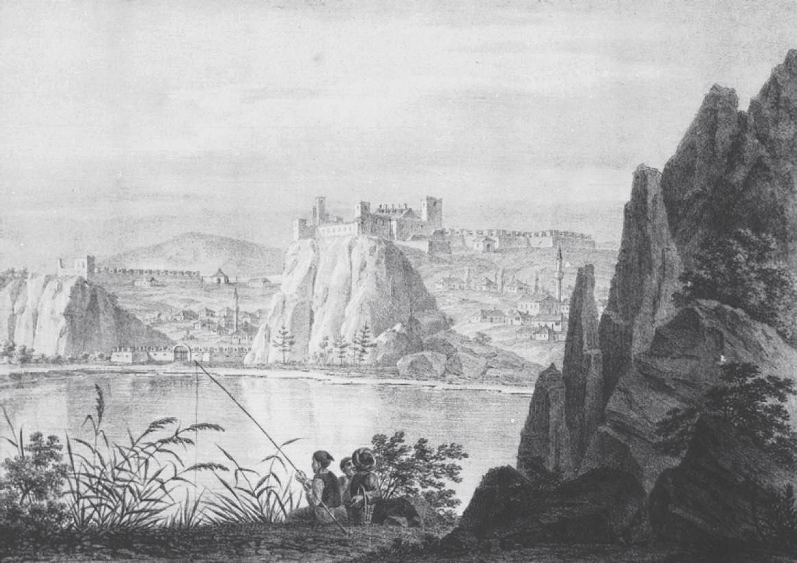 The city and fortress of Hârşova at the beginning of the 19th century. Lithograph by A. von Saar after a drawing by Erminy. The fortress was destroyed in 1829.